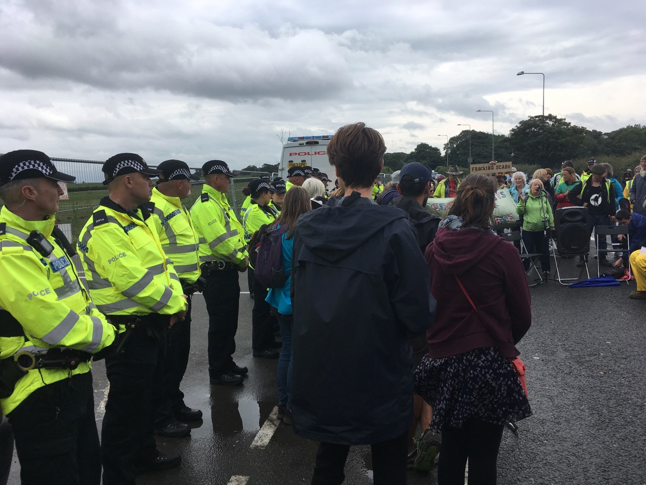 Police and protectors at the Cuadrilla Resources fracking exploration site at Little Plumpton, near Blackpool.